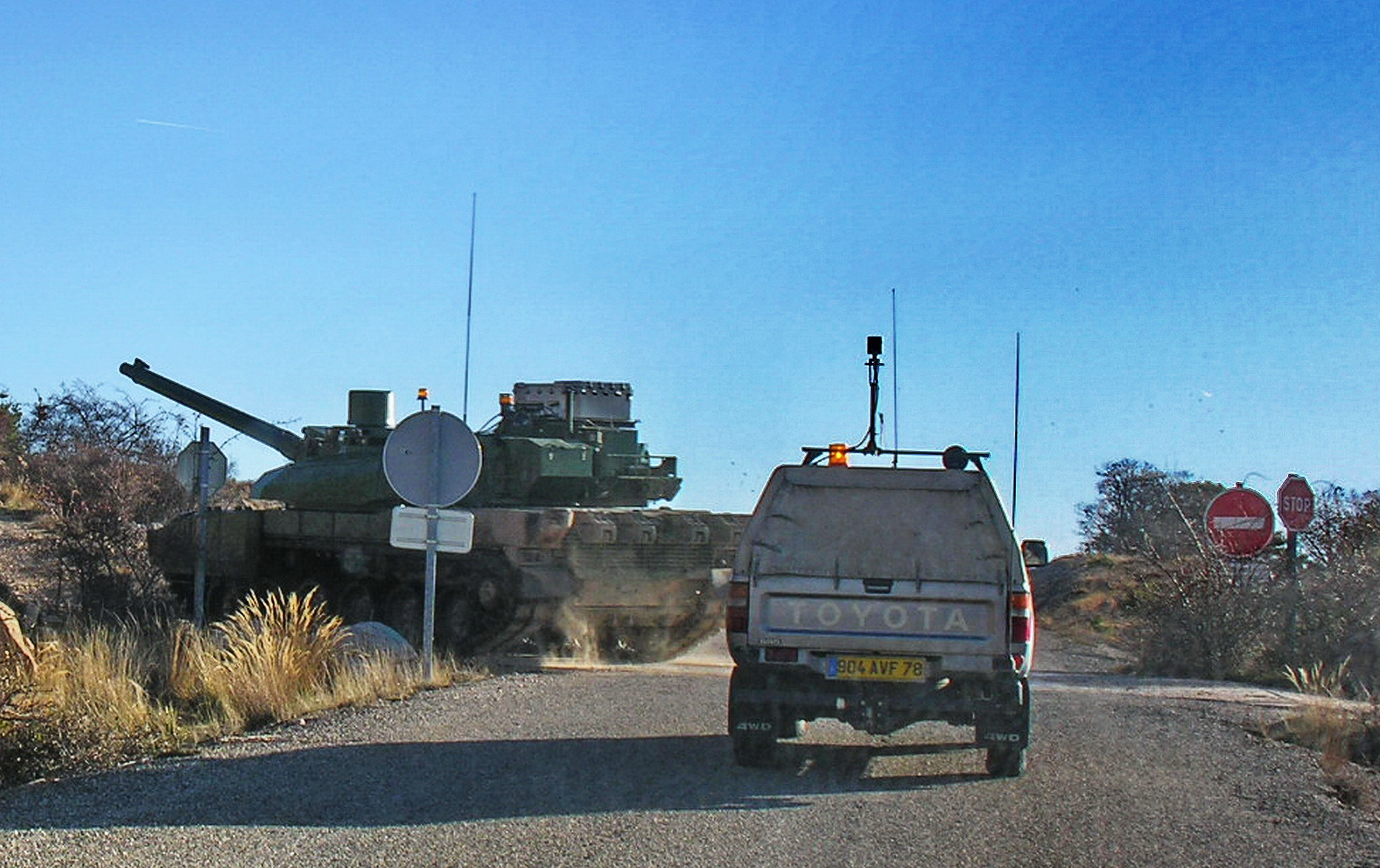 Military camp of Canjuers (Var) take care : a tank can hide a sheep!